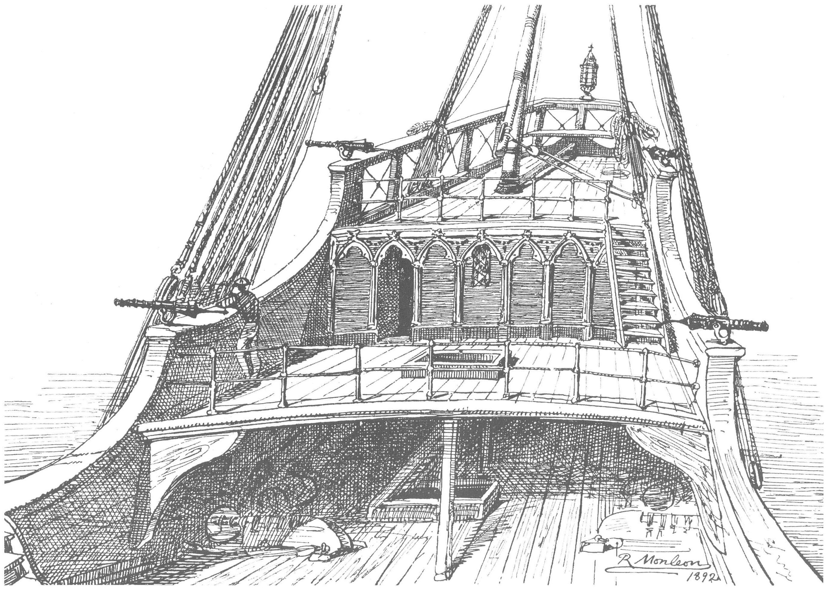 The quarterdeck and poop of the Fernandez-Duro Santa Maria carrack. Drawing by R. Monleon. 1892